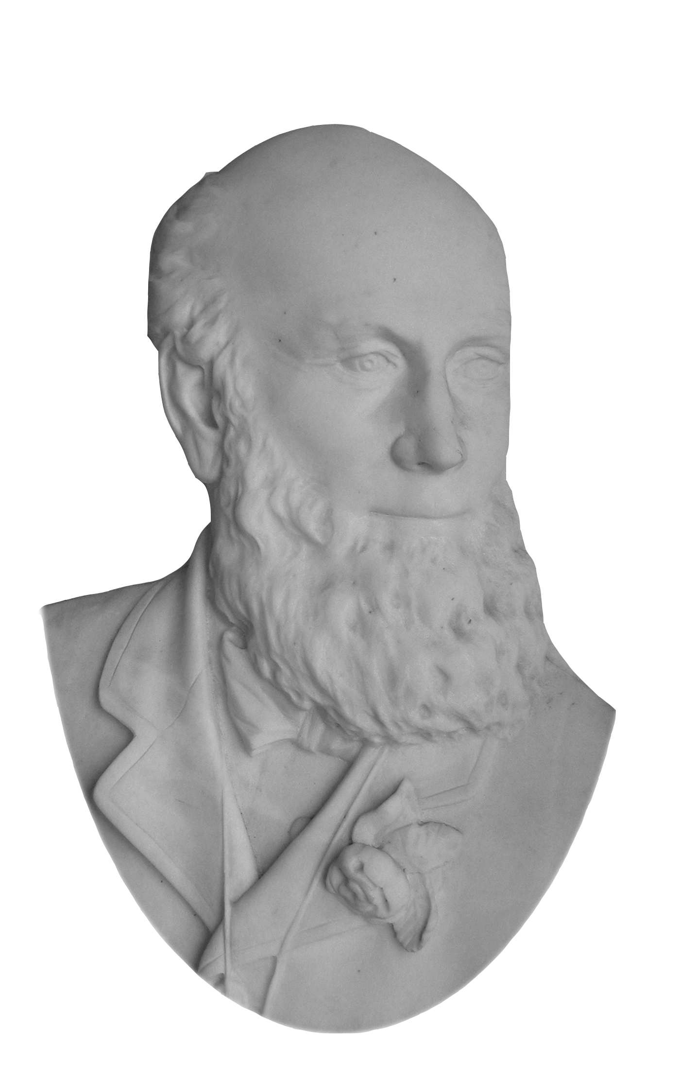 Image made from a photograph taken myself from a fragment of a memorial once in St Paul's Chapel, Runcorn, now owned by Findlows Funeral Directors, Halton Road, Runcorn.